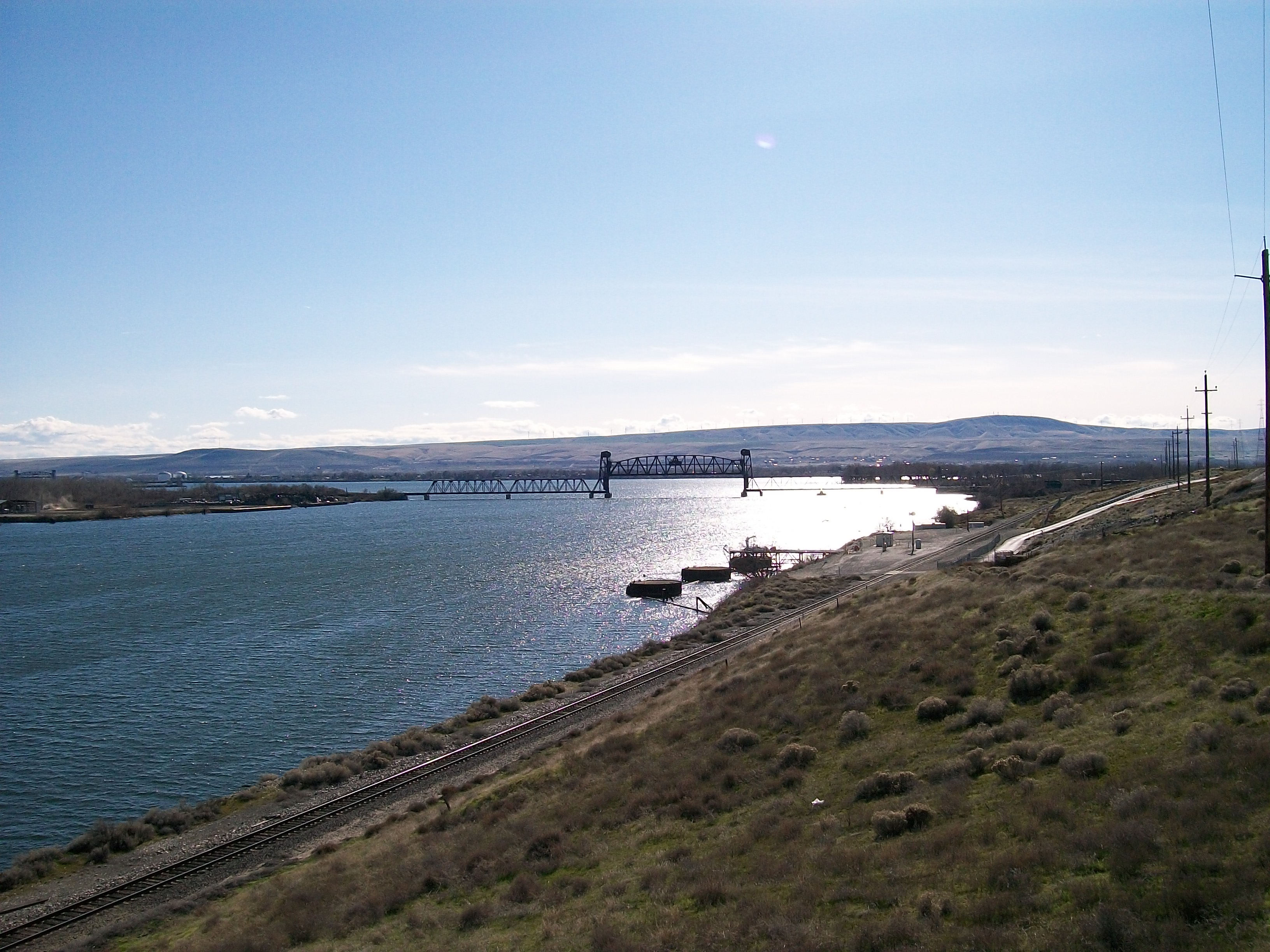 BNSF Railway drawbridge crossing the Snake River. The confluence of the Snake and Columbia rivers can be seen in the background.